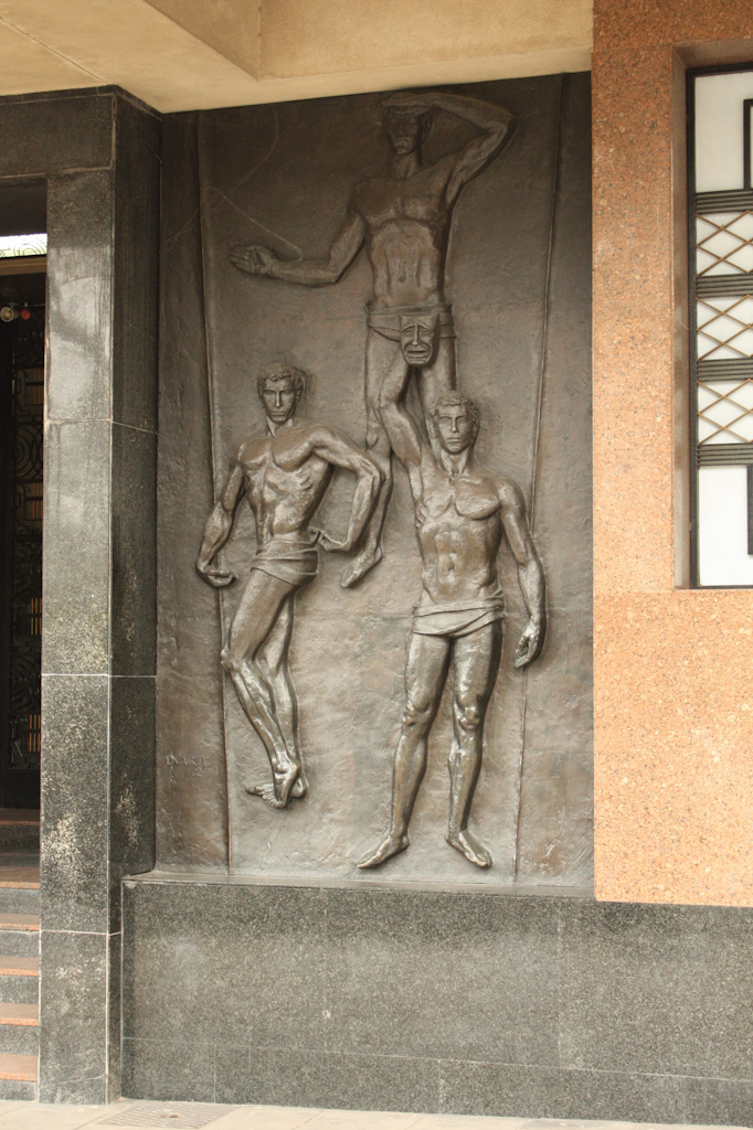 Rádio Moçambique building in Maputo, Mozambique